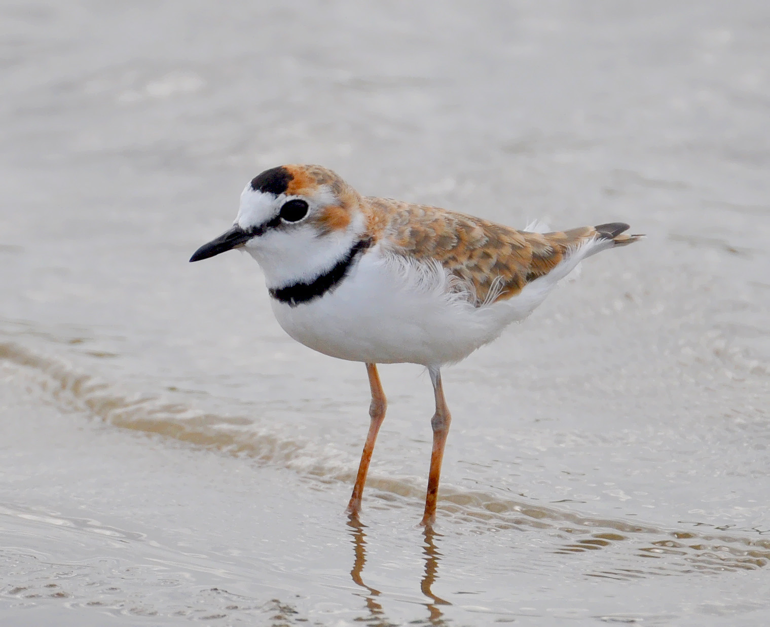 Charadrius collaris photographed on the Atlantic coast of Rio Grande do Sul, Brazil, in April 2010.